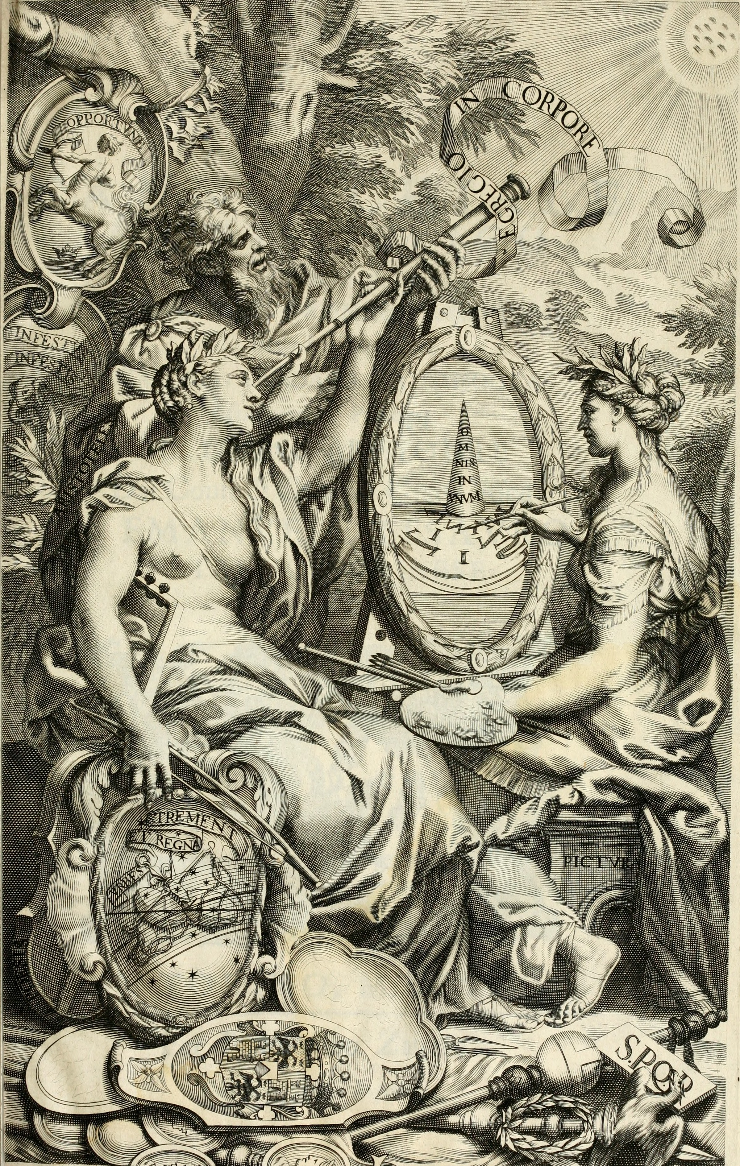 Title: Il cannocchiale aristotelico, o sia, Idea dell'arguta et ingeniosa elocutione : che serue à tutta l'arte oratoria, lapidaria, et simbolica Year: 1670 (1670s) Authors: Tesauro, Emanuele, conte, 1592-1675 Piola, Domenico, 1627-1703 Tasnière, Giorgio, d. 1704 Zavatta, Bartolomeo, fl. 1651-1690 Subjects: Aristotle Mottoes Emblems Metaphor Publisher: In Torino : Per Bartolomeo Zauatta Text Appearing Before Image: li, & infoaui, la I,& laV. 1^5 Voci degli Animali, perche piaceuoli,ò fpiaceuoli. 16^4 Voci animate dal Concetto, & fuoi ef-fetti. 157 Voci furate dallo Italico al Latino, pa-iono pedanterie a (ciocchi Sindica,-tori, & fon Figure. 255 Voci Pellegrine m fei differenze. 2,50 Voci Prifche . Sua ofleruatione. 2.51 Voci alterate in vna Claufula, la ren-dono elegante. t6o Voci Metaforiche mefcolate con altrePellegrine rifplendon più. tC^ Voci Ironiche, onde nafcano. 2.94 Voci de Colori fi trafportano alle cofeinuifibili. 311 Voci trafportate da termini del Sito,qual fpecie di Metafora di Simi-glianza fiano. 3^5 Voluttà, e Mondani Piaceri, che fiano,116. Voto Figura, fi congiunge con la Inuo-catione. 2,14 Vrbanità Entimematica . Vedi Enti;mema Vrbano. Vrbanità fi diftingue dalla Bomo/o-chia. /pi Vrbanità, alerò non fono,che Metafore 300 ^55 Ingeniofe.Vtilità dellIndice Categorico. Il /--TTAchia , Idea de PredicatoriJlLj Concettofi. 538 f \ ^ .^H vi Vtfi ^ • / Text Appearing After Image: :gregio NSPERSOS REPRFHENDIT CORPORE NtVOS H_ D Piala imi G Vuiufrv fculpj: laur IL CANNOCCHIALE ARISTOTELICO O fia Idea DELL* ARGVTA ET INGENIOSA ELOCVTIONE Che fcrue à tutta lArte ORATORIA, LAPIDARIA, ET SIMBOLICA Efaminata co* Principi) DEL DIVINO ARISTOTELEDal Conte & Caualier Gran Croce D. EMANVELE TESAVRO PATRITIO TORINESE. ^luinta Jmprefsione.ilcannocchialear00tesa